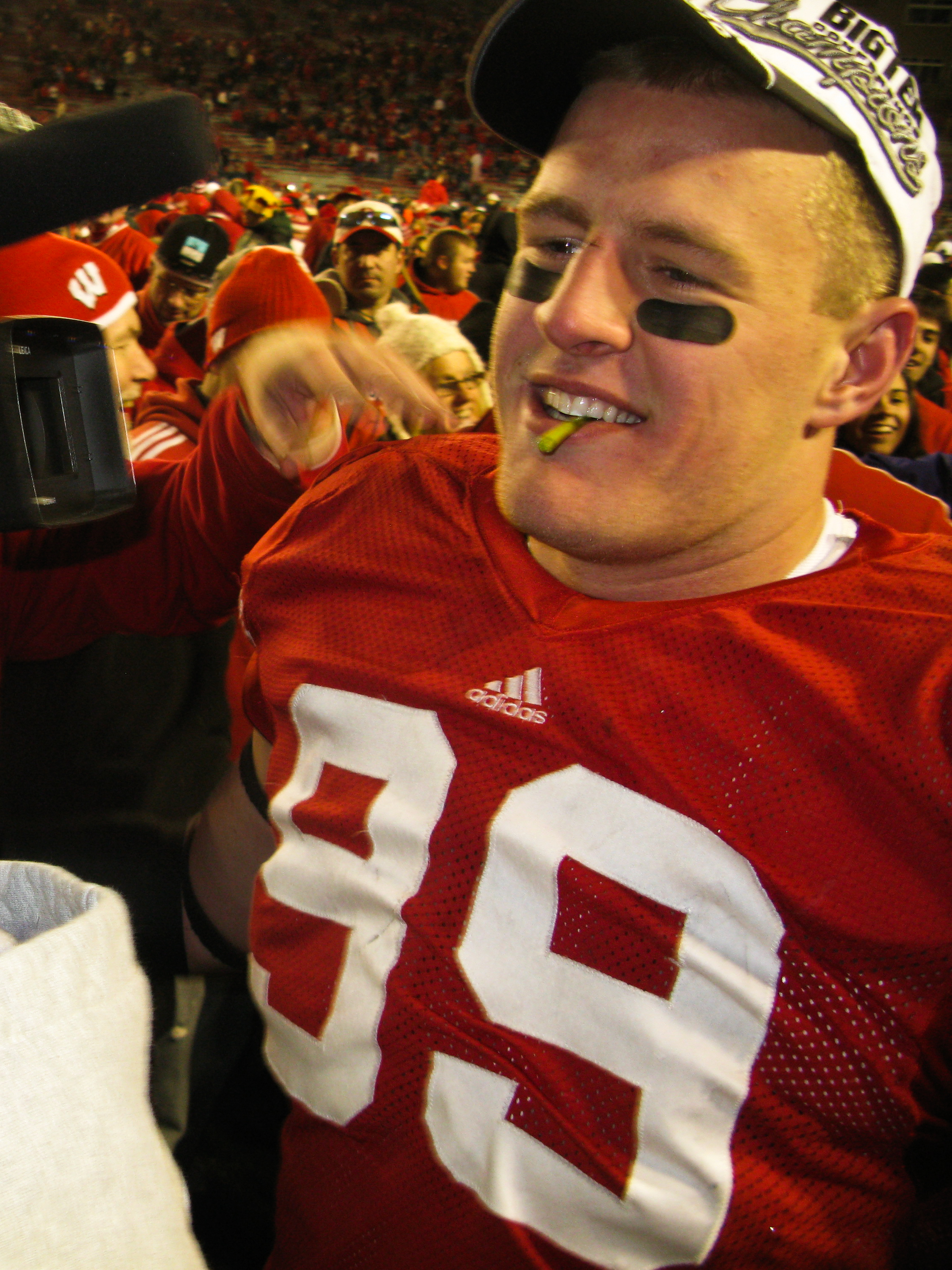 J.J. Watt - Defensive Player of the Year